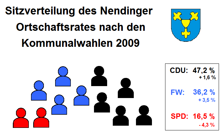 The city council of Nendingen